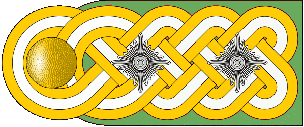 Rang insignia, here epaulet of the General (Three-star rank OF-8) of the police until 1945